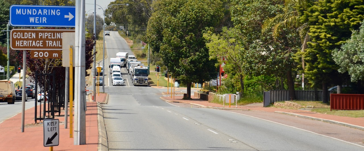 Great Eastern Highway in Mundaring